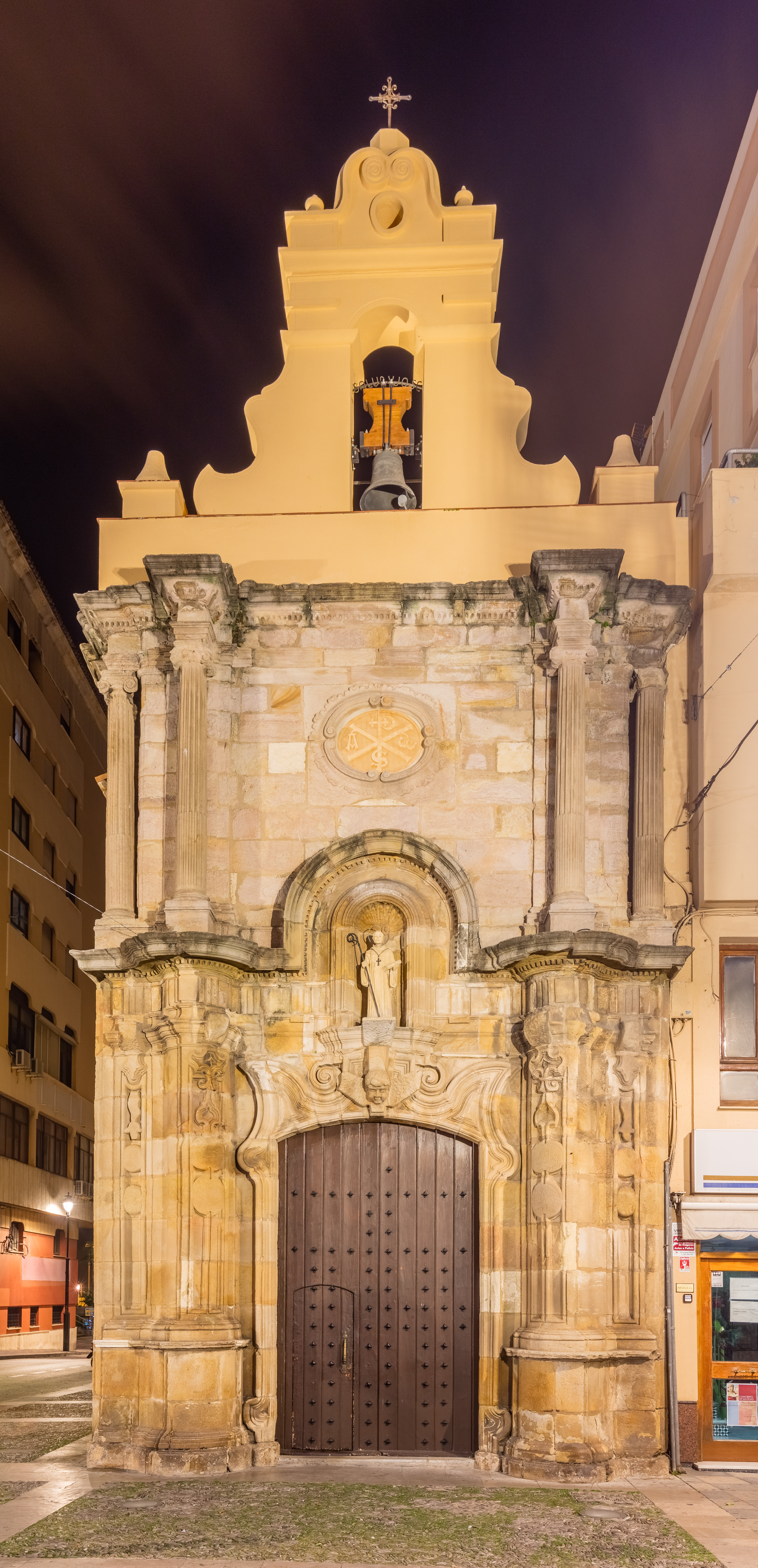 Chapel of Our Lady of Europe, Algeciras, province of Cádiz, Spain.